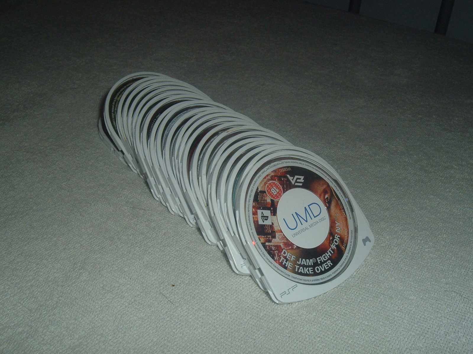 A variety of Universal Media Discs